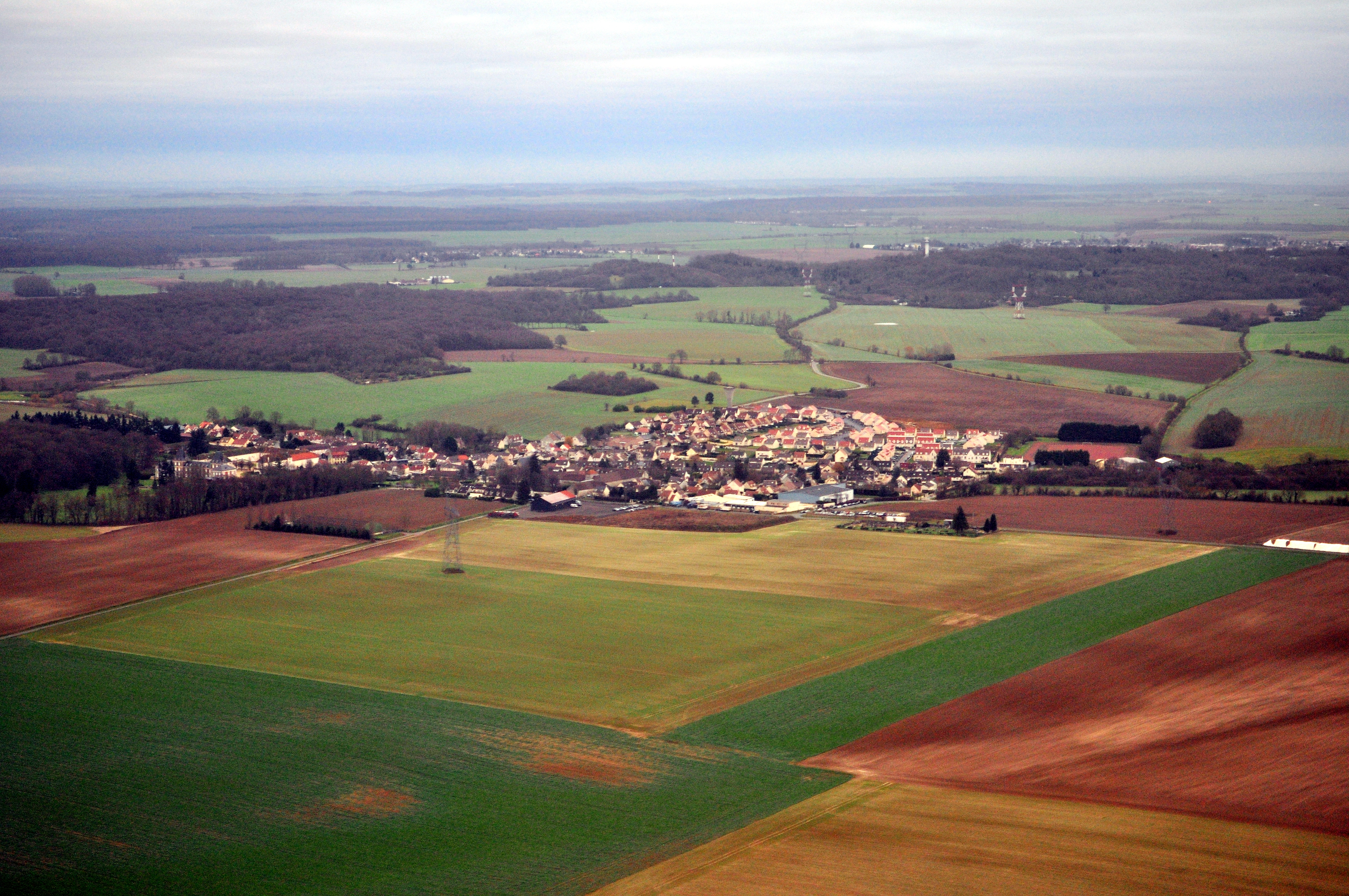 Aerial photograph of Moussy-le-Vieux, Seine-et-Marne, France.